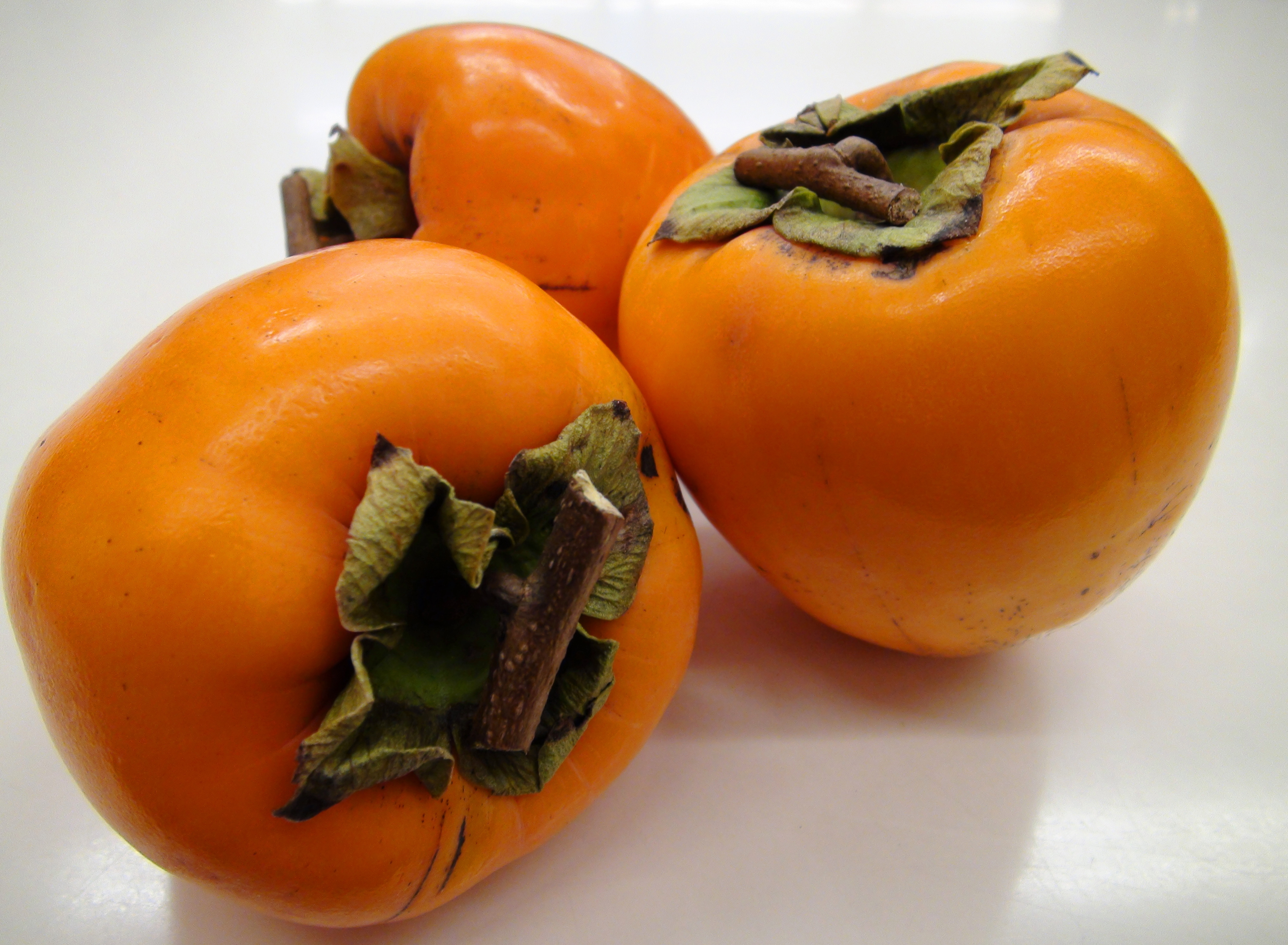 Koshuhyakume Persimmon Yamanashi Japan